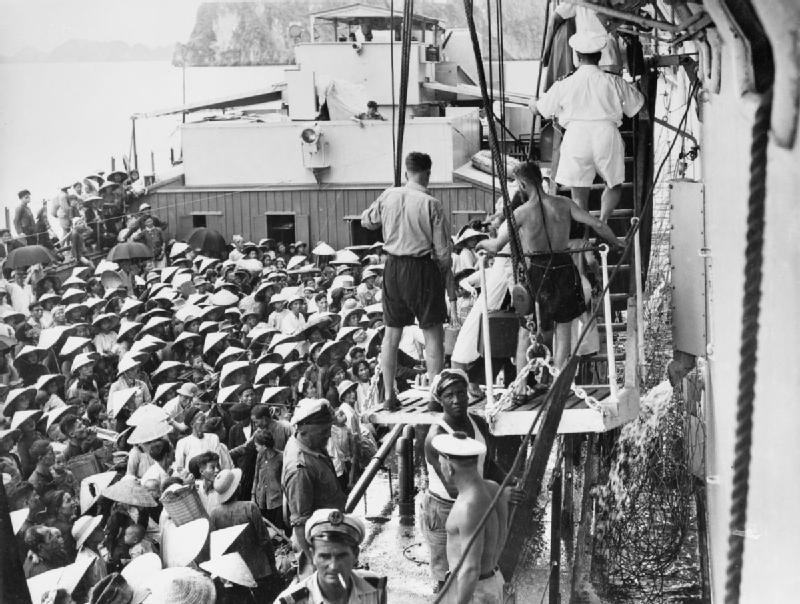 The aircraft carrier HMS WARRIOR evacuates 1,455 refugees from Haiphong, North Vietnam to Saigon during Operation PASSAGE TO FREEDOM, 4 September 1954. Refugees transfer from a French LCT landing craft to HMS WARRIOR at the port of Haiphong.